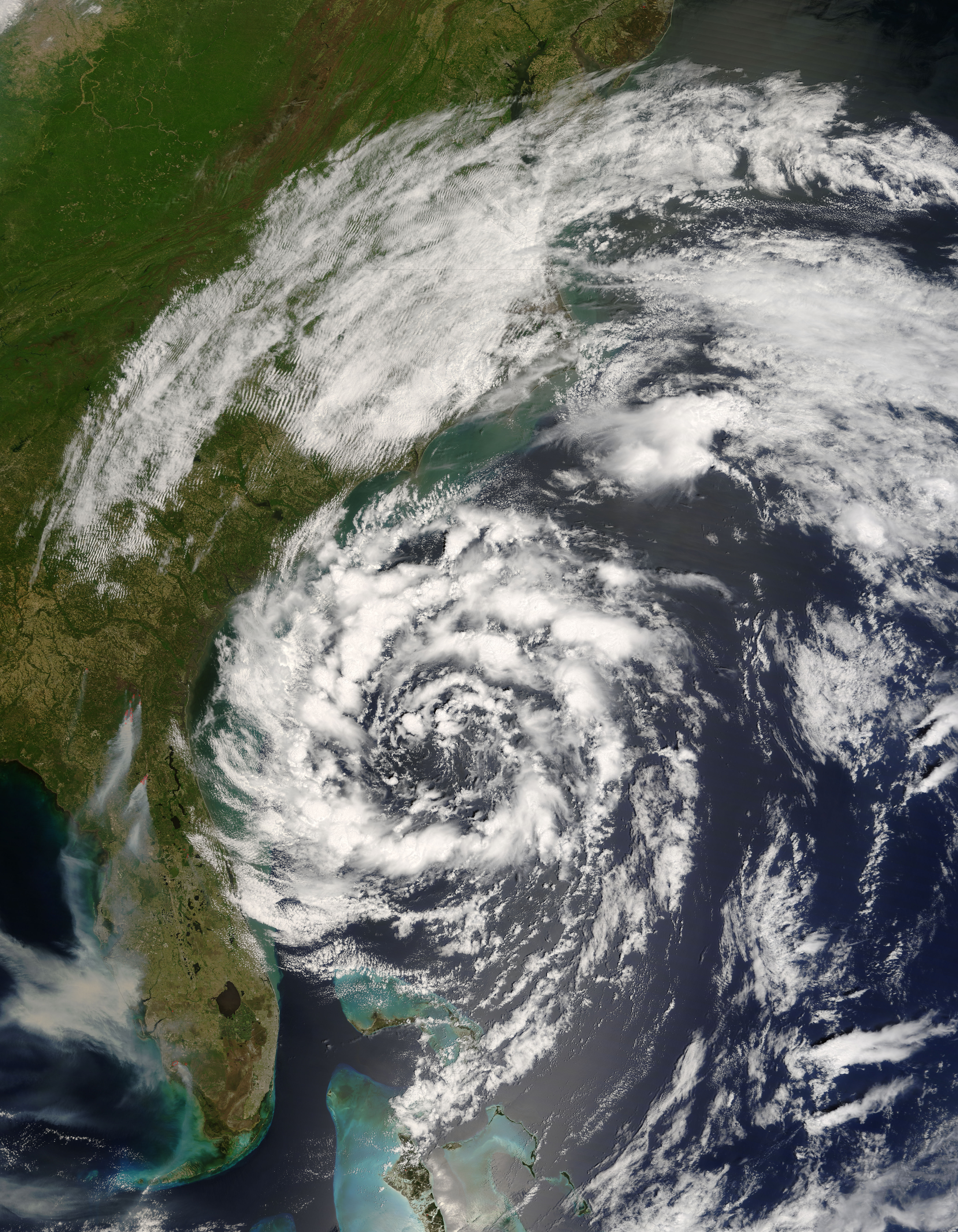 The circling clouds of an intense low-pressure system sat off the southeast coast of the United States on May 8, 2007, when the Moderate Resolution Imaging Spectroradiometer (MODIS) on NASA’s Terra satellite captured this image. By the following morning, the storm had developed enough to be classified as a subtropical storm, a storm that forms outside of the tropics, but has many of the characteristics—hurricane-force winds, driving rains, low pressure, and sometimes an eye—of a tropical storm. Although it arrived several weeks shy of the official start of the hurricane season (June 1), Subtropical Storm Andrea became the first named storm of the 2007 Atlantic hurricane season. The storm has the circular shape of a tropical cyclone in this image, but lacks the tight organization seen in more powerful storms. By May 9, the storm’s winds reached 75 kilometers per hour (45 miles per hour), and the storm was not predicted to get any stronger, said the National Hurricane Center. Though Subtropical Storm Andrea was expected to remain offshore, its strong winds and high waves pummeled coastal states, prompting a tropical storm watch. The winds fueled wild fires (marked with red boxes) in Georgia and Florida. The wind-driven flames generated thick plumes of smoke that concentrated in a gray-brown mass over Tampa Bay, Florida. Unfortunately for Georgia and Florida, which are experiencing moderate to severe drought, Subtropical Storm Andrea was not predicted to bring significant rain to the region right away, according to reports on the Washington Post Website.